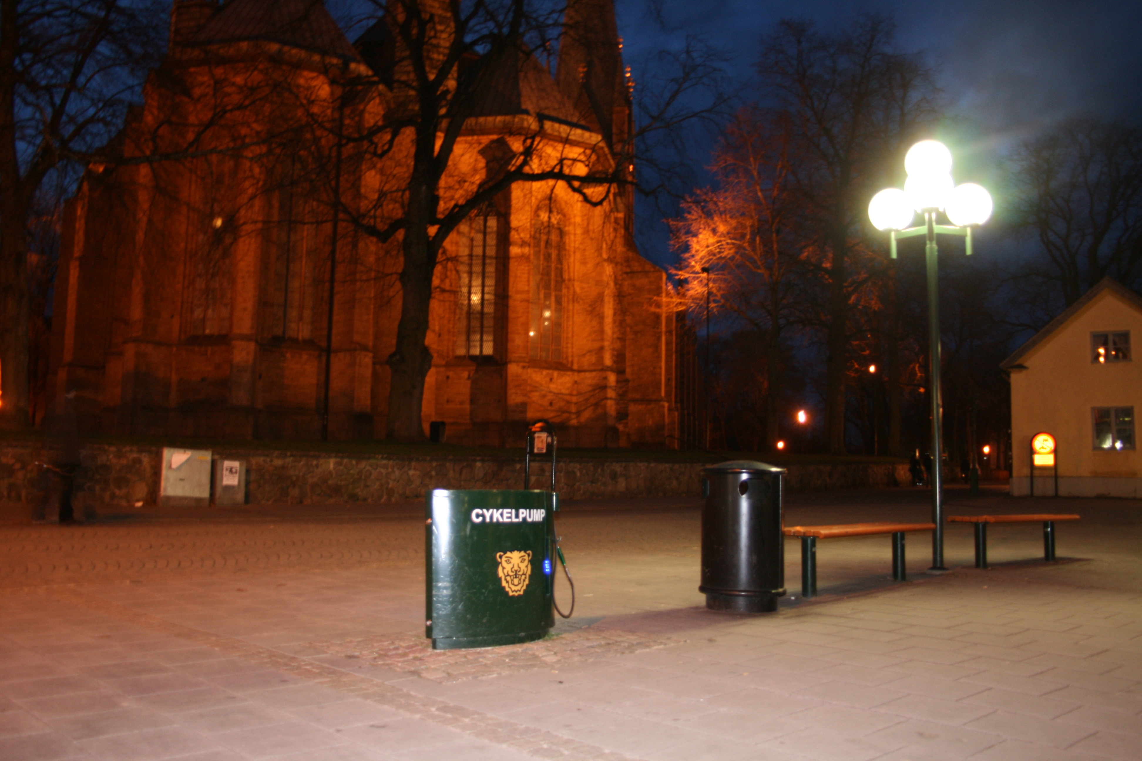 Outdoor public bicycle pump in downtown Linköping, Sweden, just east of the cathedral.